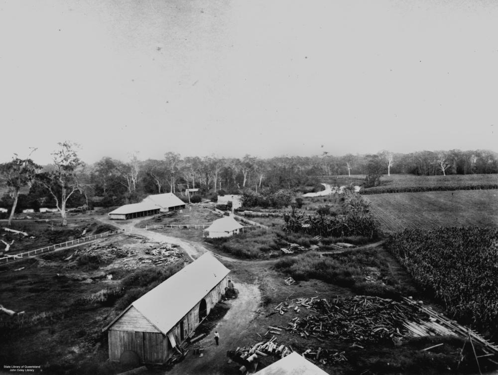 Morayfield Sugar Plantation at Caboolture, 1873 Some of the outer buildings of Morayfield Sugar Plantation, Caboolture,1873. Surrounding fields are shown.